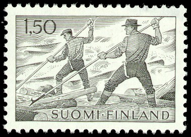 Postage stamp depicting Finnish log drivers